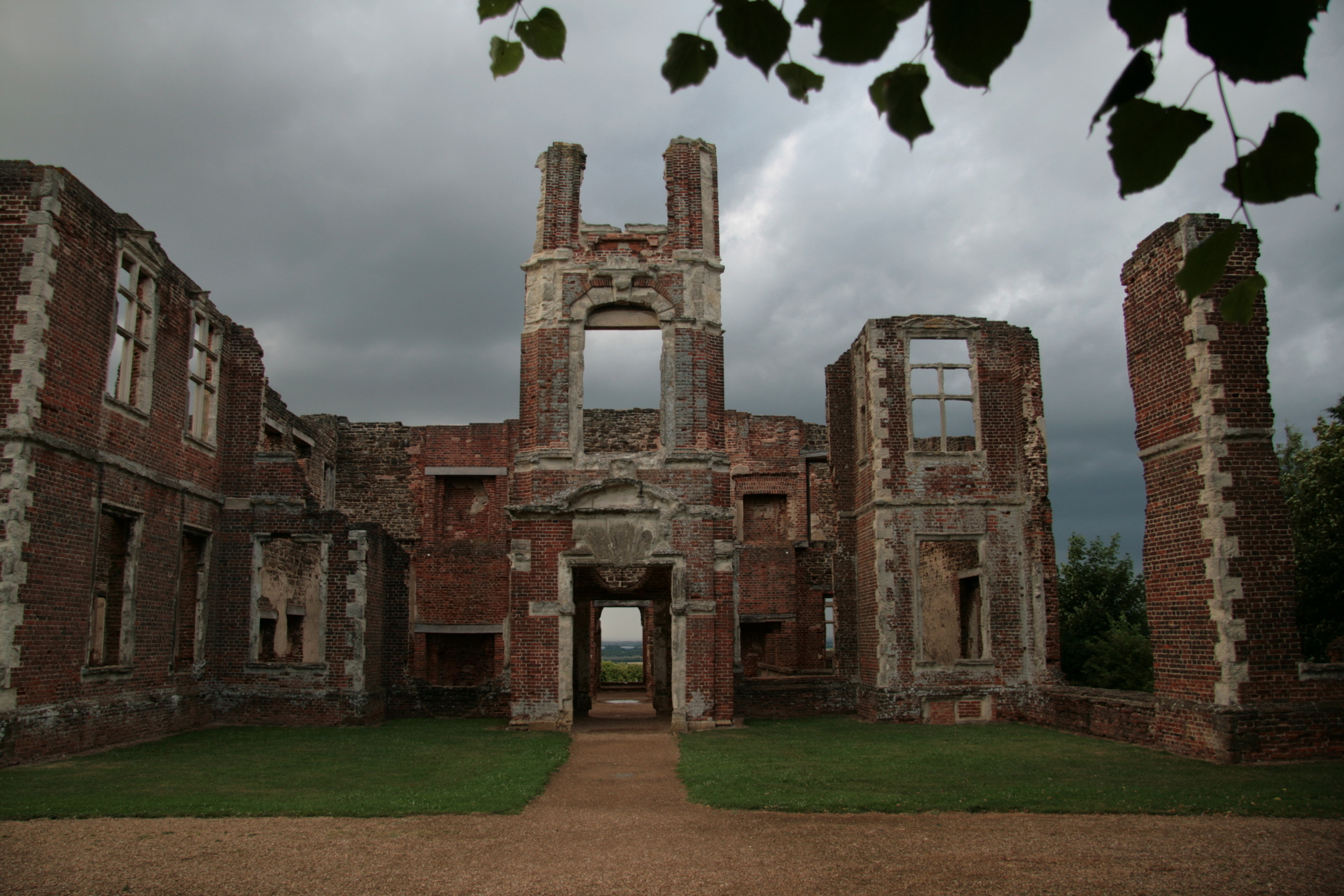 Houghton House in Bedfordshire, in the UK; built in in 1621.